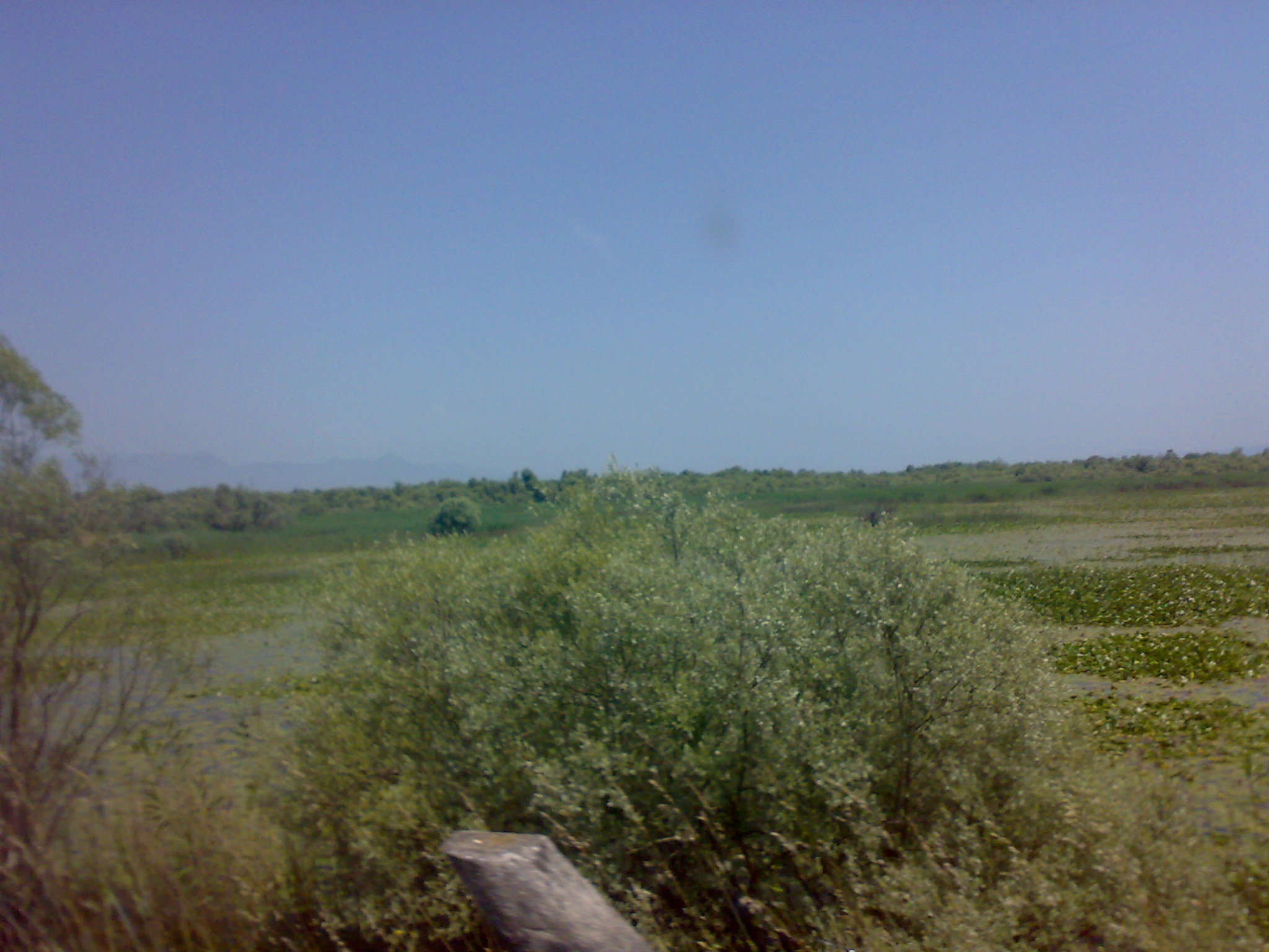 Moraca river delta in Skhoder Lake, Skadarskoe jezero, Montenegro